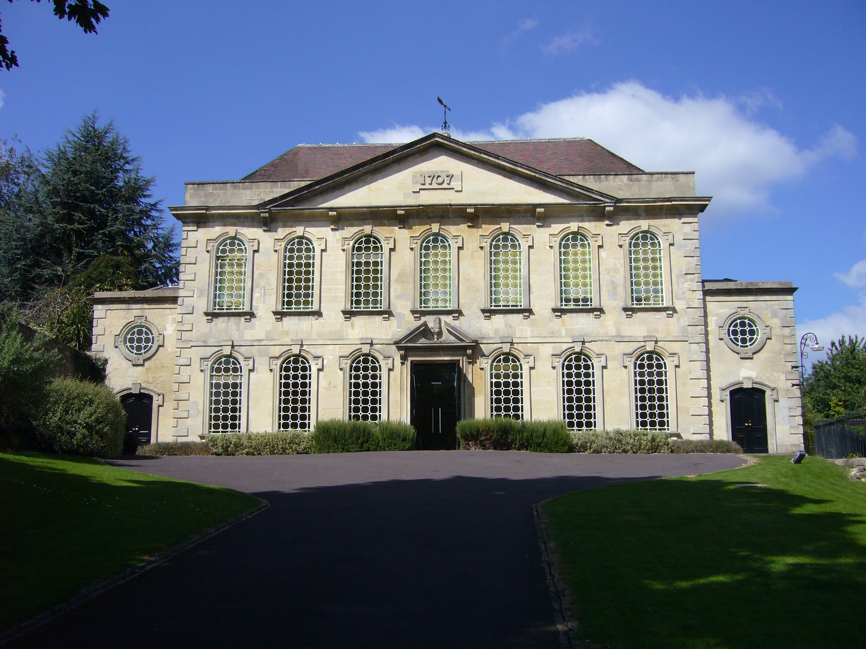 Rook Lane Chapel in Frome. Photographed in September 2007. Required attribution is: Photo by Tom Oates.